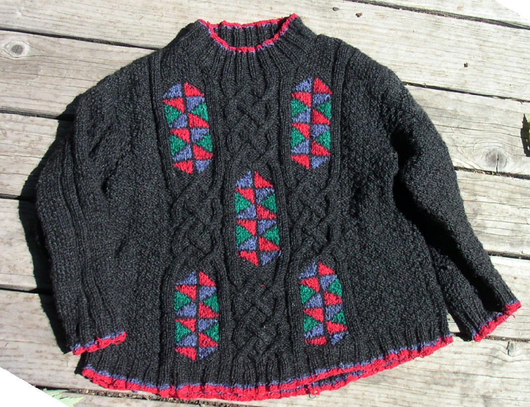 Alice Starmore designed "stained glass sweater".